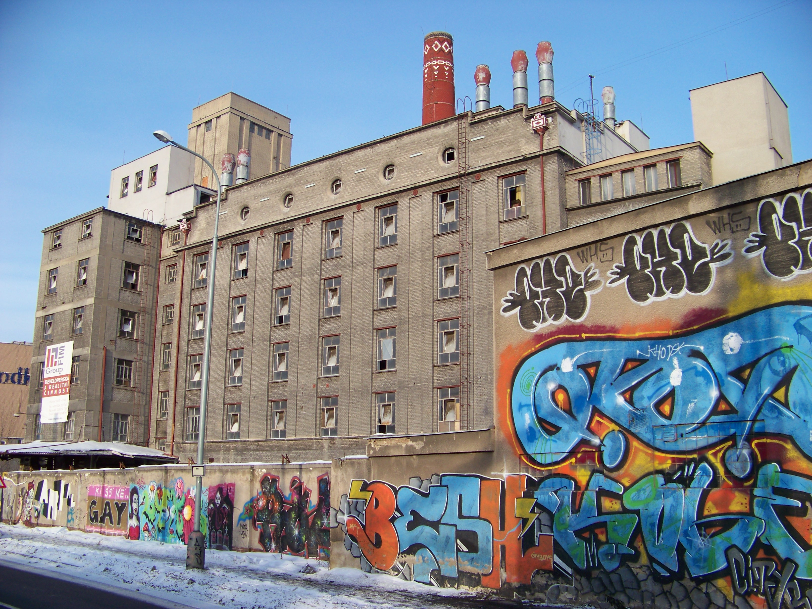 Prague-Vysočany, the Czech Republic. Ke Klíčovu street, Odkolek bakery and mills. - Google Maps - Google Earth